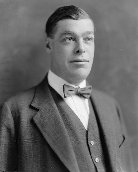 Charles B. Ward, Congressman from New York